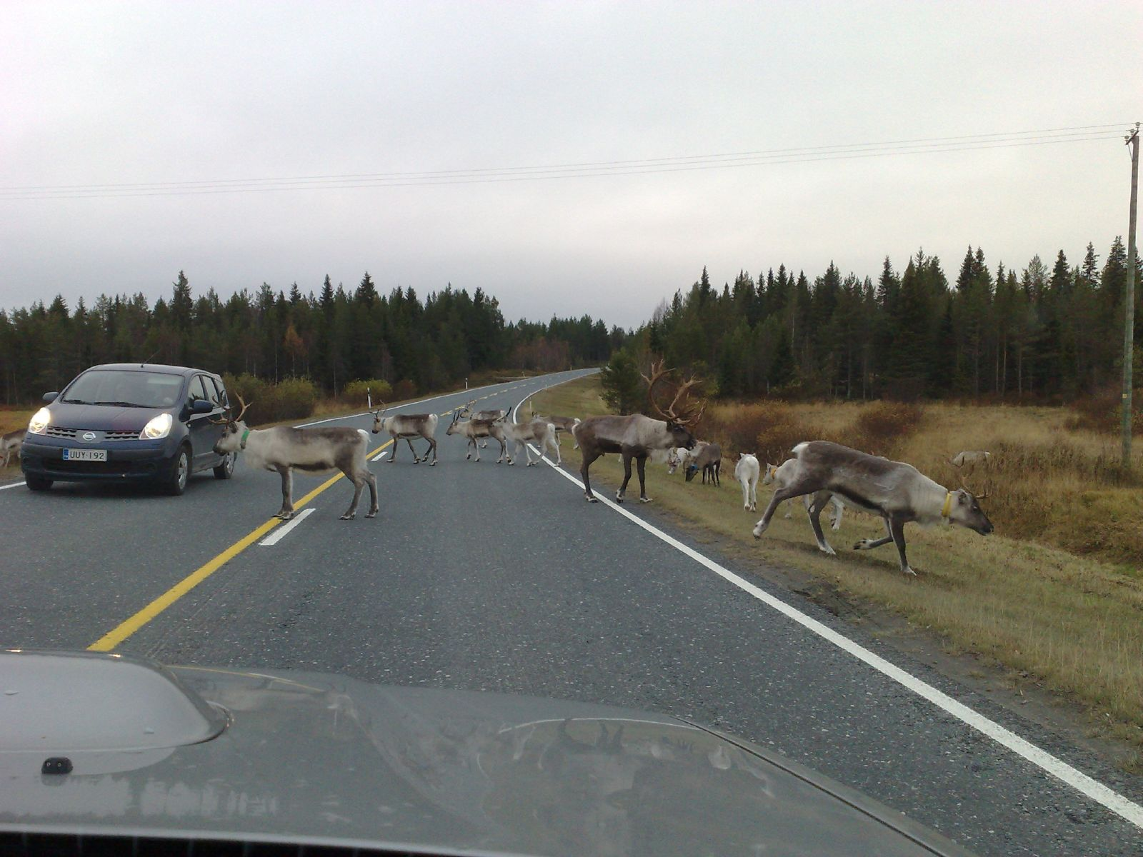 Reindeer (Rangifer tarandus) on the Finnish national road 5 (E63) between Ruka and Kuusamo, Finland. Quite a common occurrence in these parts.